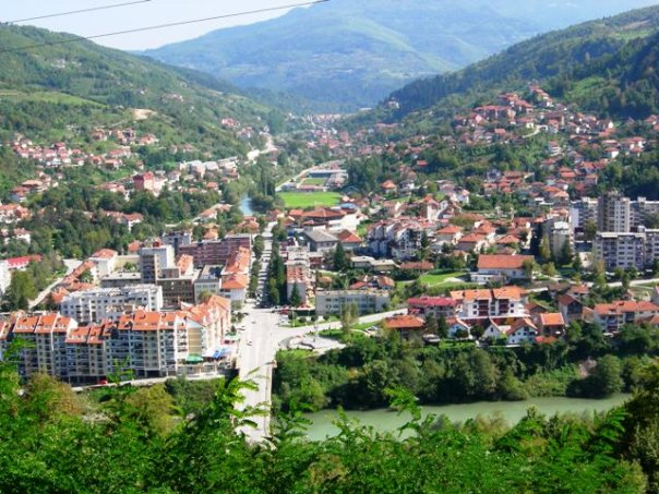 Overview of Foča, named Srbinje until 2004